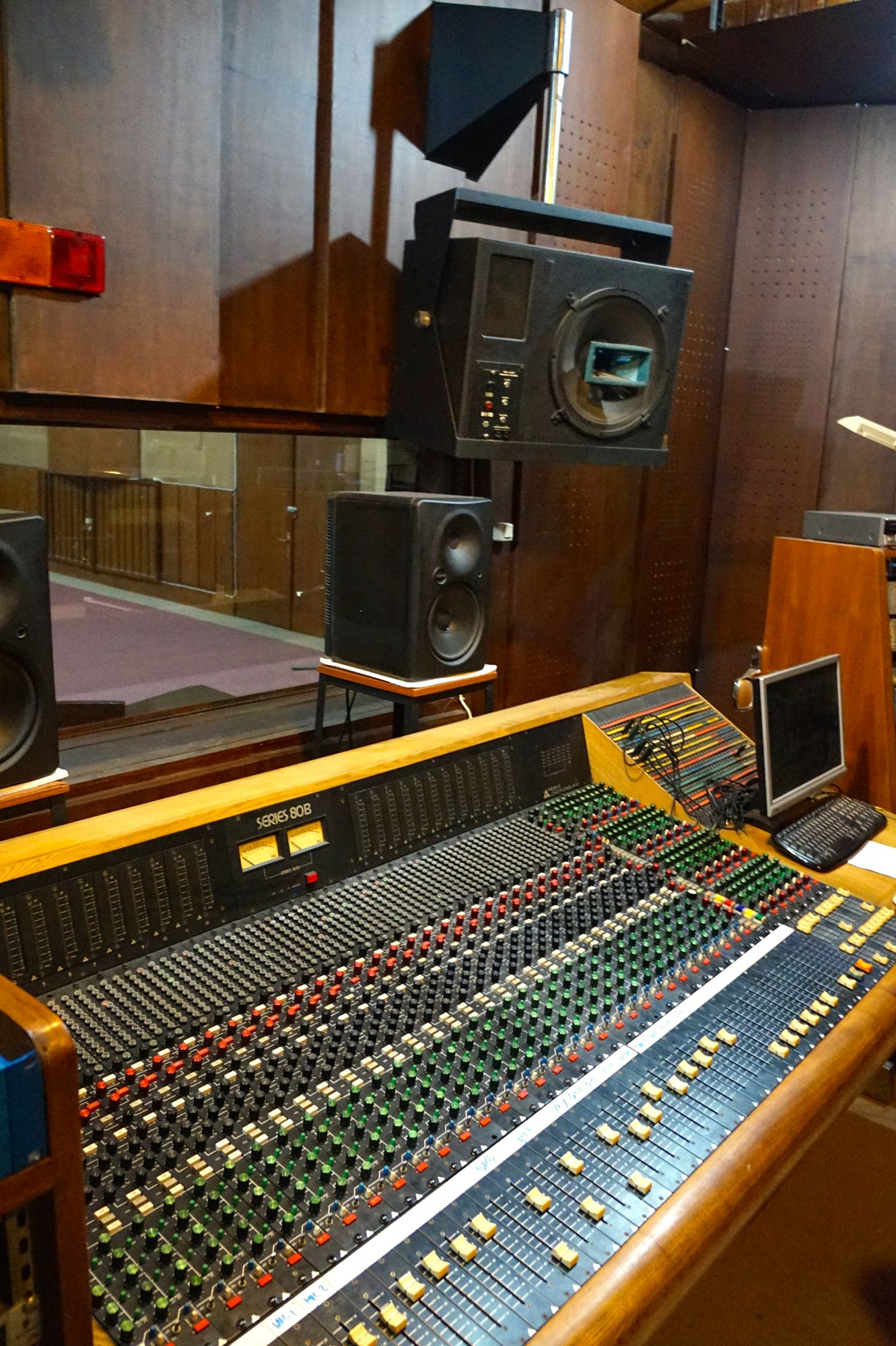 Inside Lokananta Studios, Solo, Indonesia. Trident-MTA Series 80B mixer